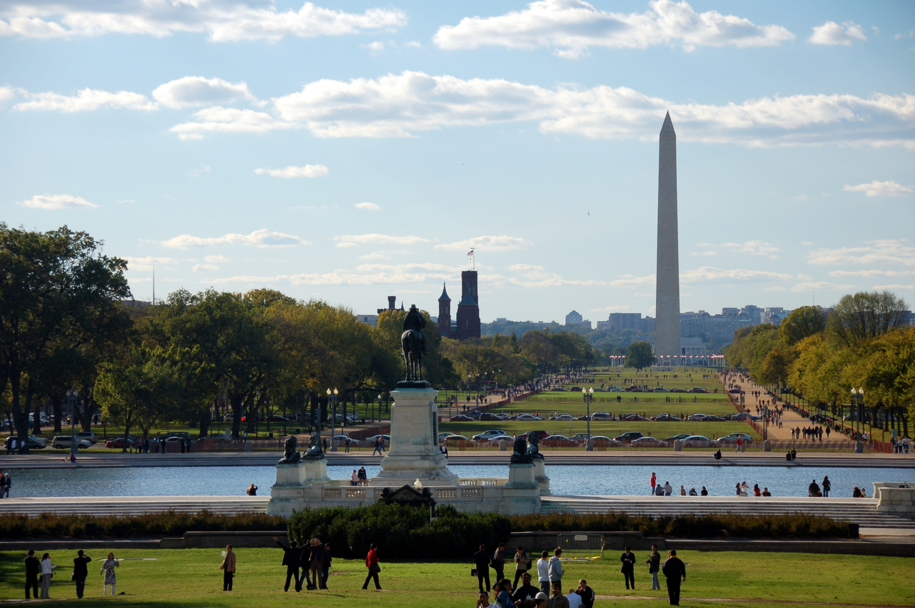 Looking Down the Mall, View west from the US Capitol, towards the Washington Monument Location: Washington, D.C.